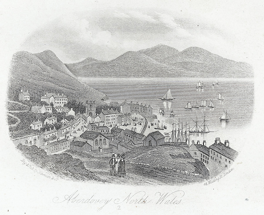 View looking down on the town and beach. People in foreground.